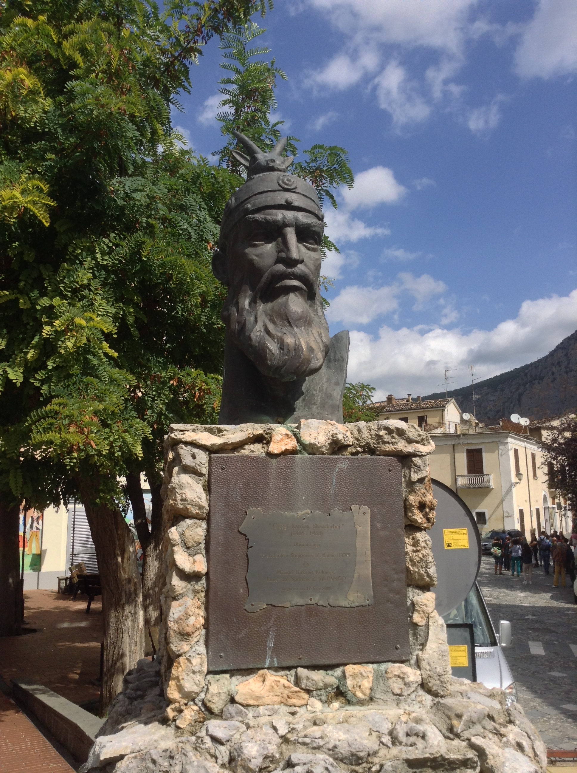 monument of George Castriota Skanderbeg in Civita, Cosenza, Italy